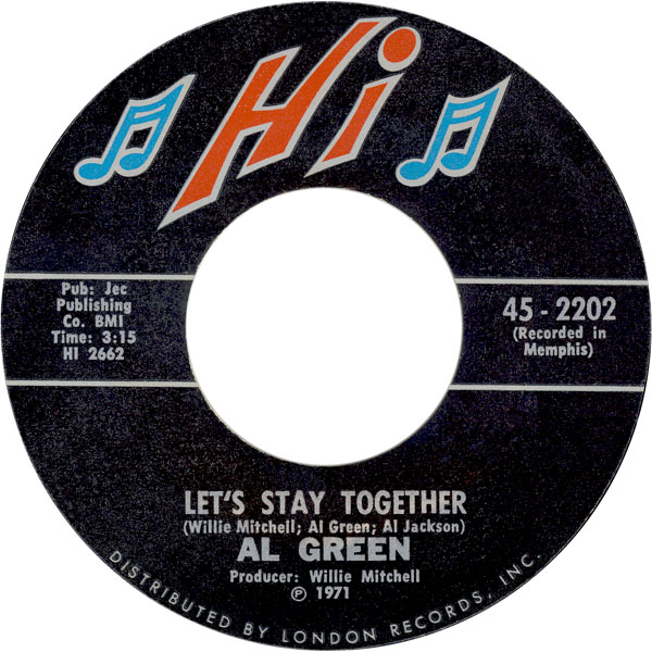 "Let's Stay Together" by Al Green; A-side label of US vinyl single